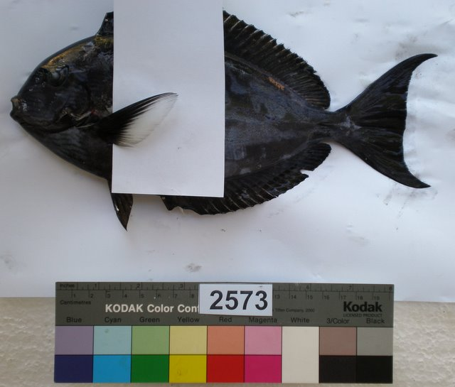 Acanthurus albipectoralis with white paper to show white pectoral fin. Locality: Récif Snark, Off Nouméa, New Caledonia. Fork Length 243 mm, Weight 243 grams. Date 2008-06-05. See also other photograph of same fish, without the white paper